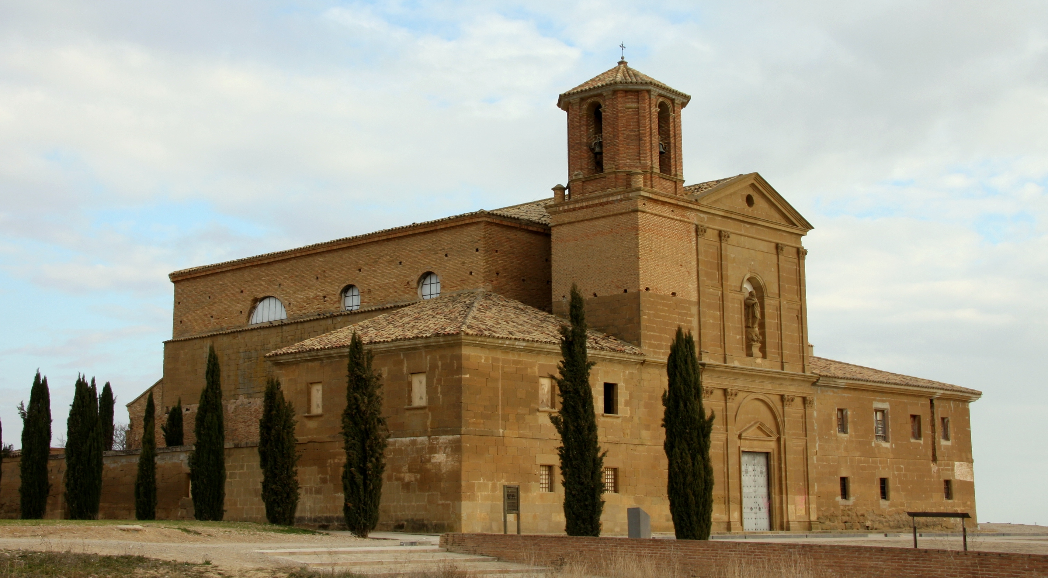 Nuestra Señora de Loreto sanctuary, near Huesca, Spain